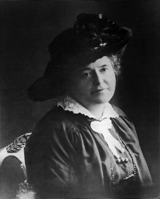 Margrethe Munthe (1860-1931), a Norwegian teacher, poet and author.